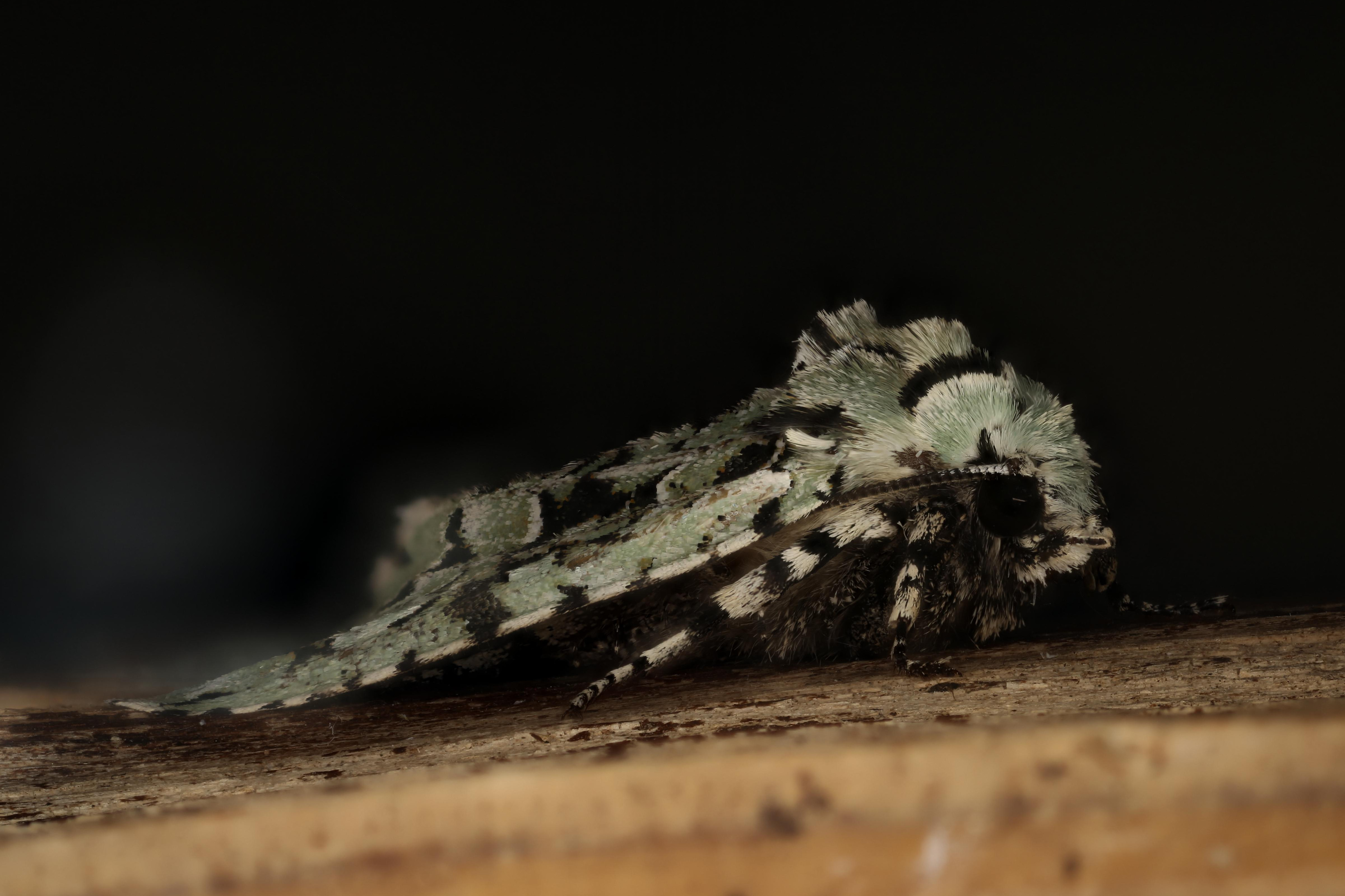 Griposia aprilina (Linnaeus, 1758), Merveille du Jour, to Robinson trap, Søborg, Denmark, 8/9 October 2016